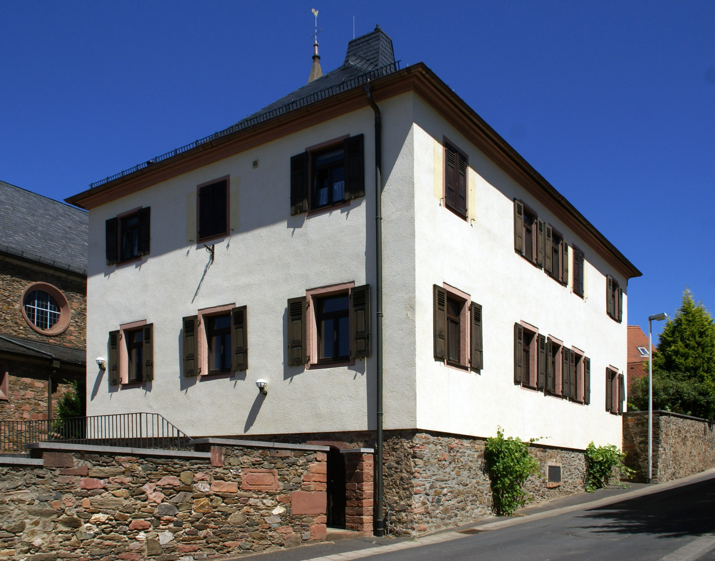 Catholic rectory in Hörstein, Edelmannstraße 1